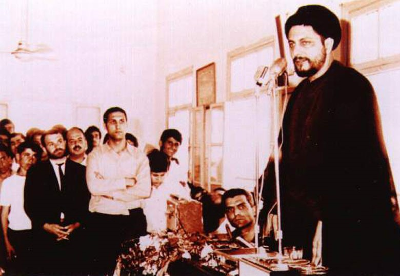 The speech of Imam Musa al-Sadr in the people of Tyre